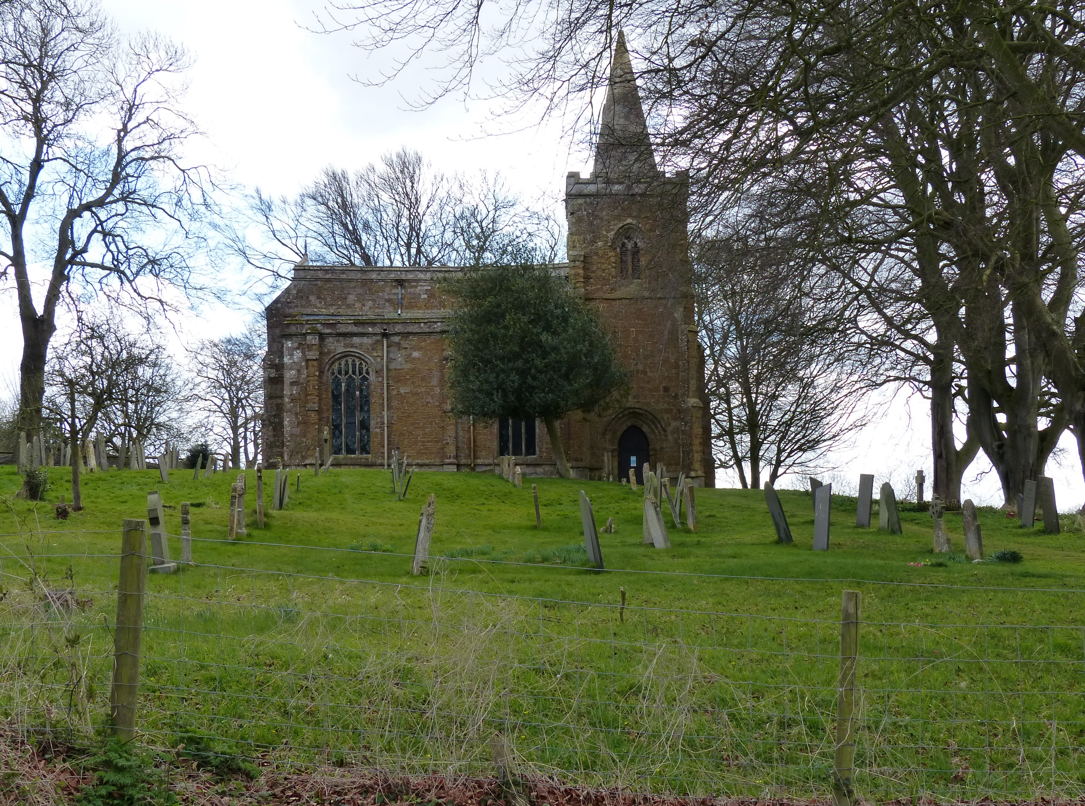 St Andrew's parish church, Owston, Leicestershire, seen from the north